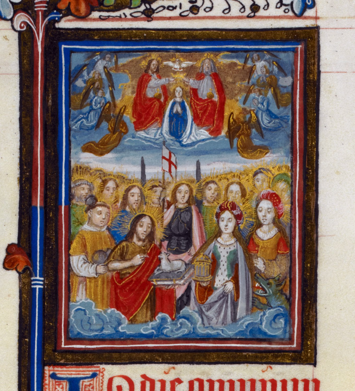 Miniature from the Jenyns Lectionary in the British Library (Royal Collection MS 2 B XIII) depicting the company of Heaven and All Saints c. 1508. Given by Sir Stephen and Dame Margaret Jenyns to St Mary Aldermanbury church, London.